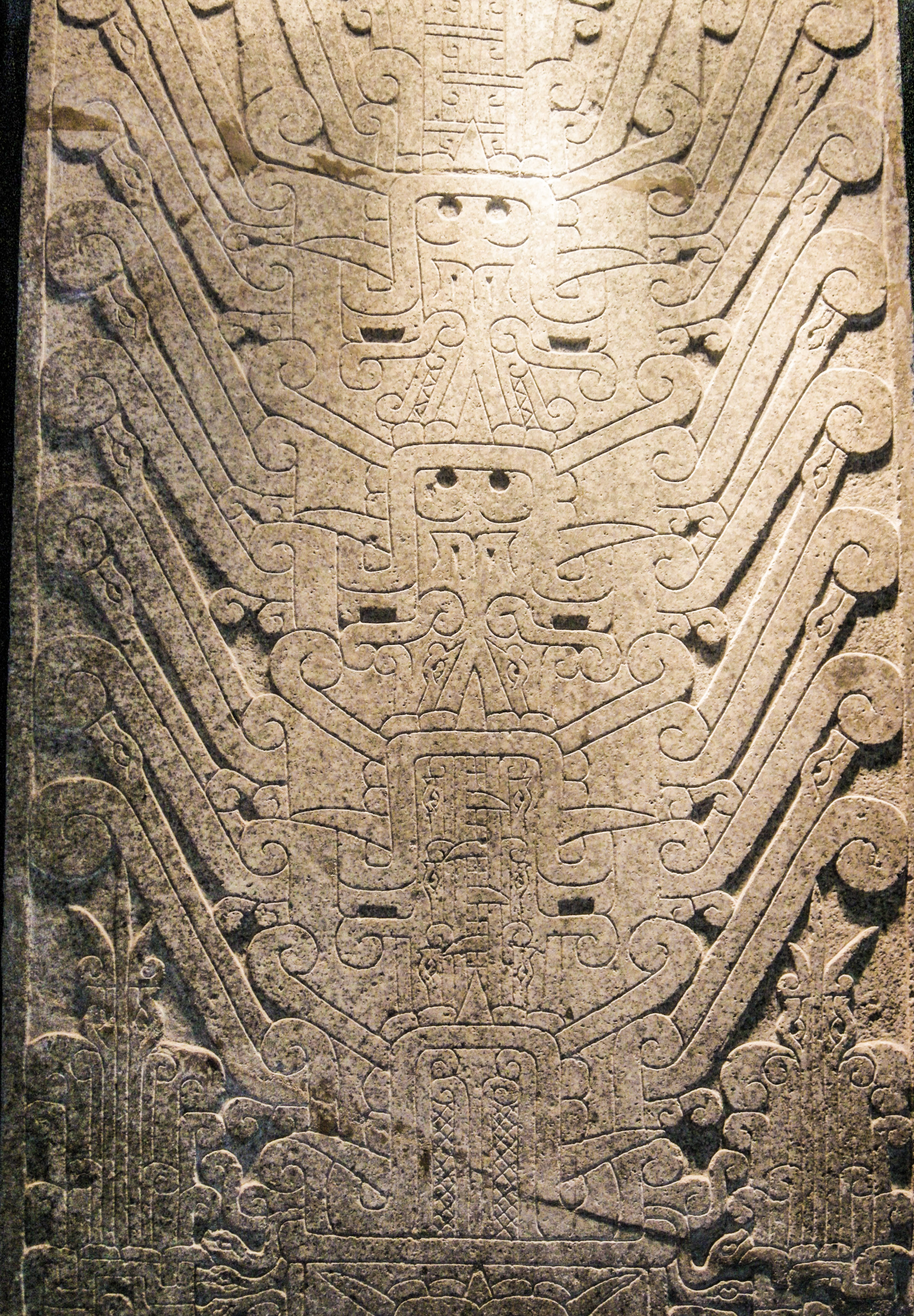 This foto was taken at anthropology Museum in Lima, Perú